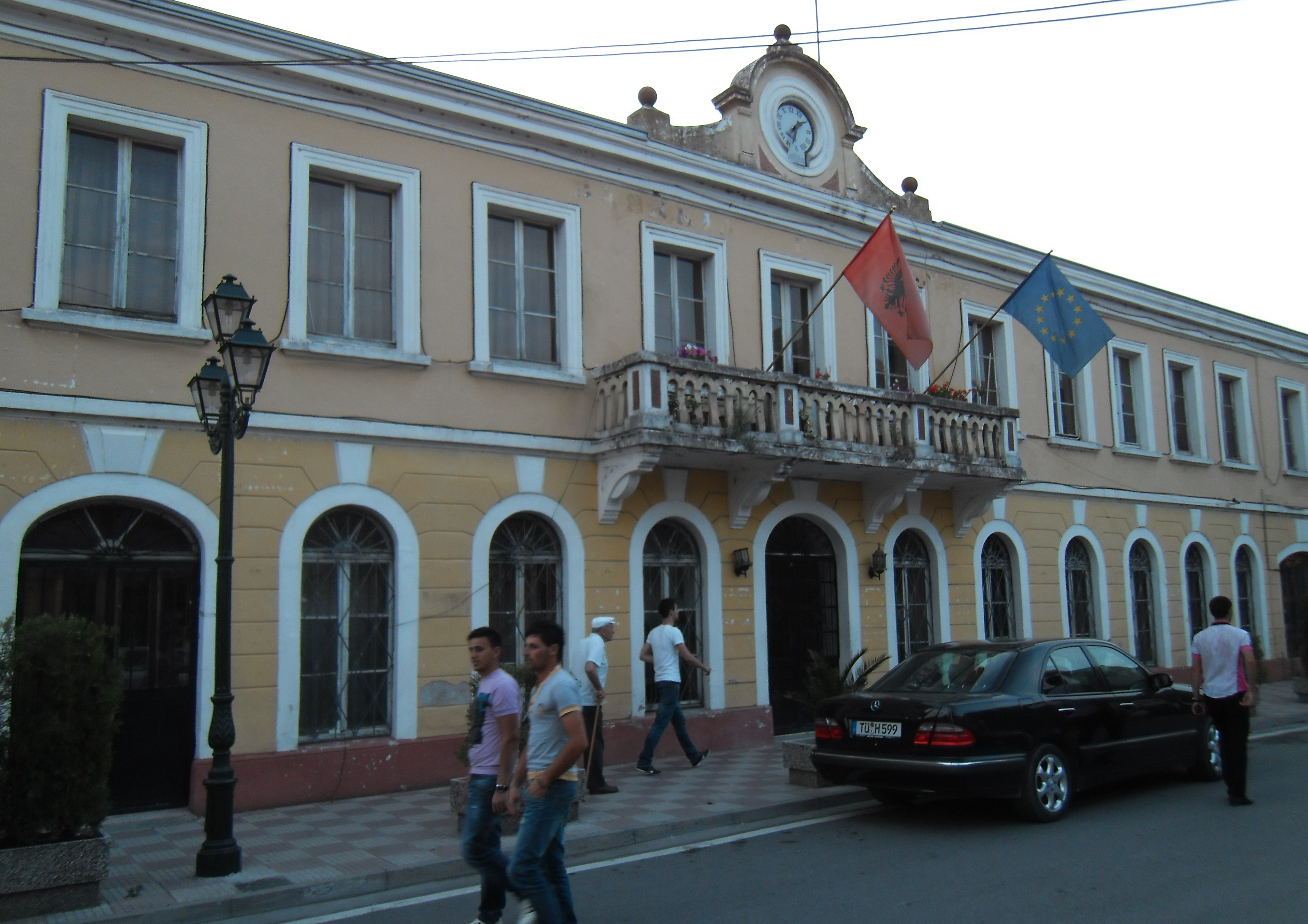 Building in Shkodra